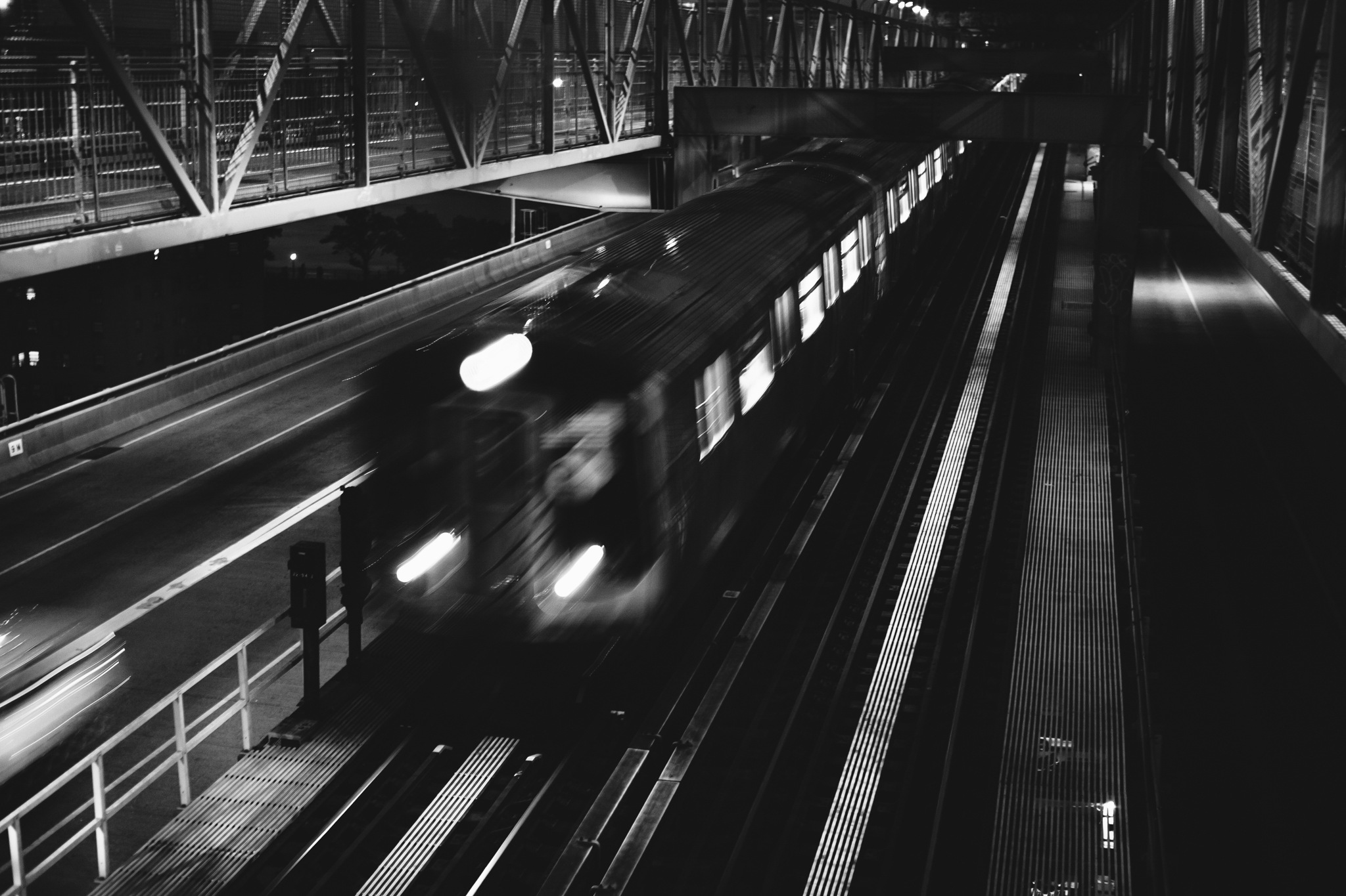 Taken early in the morning (4 am) on the Williamsburg Bridge